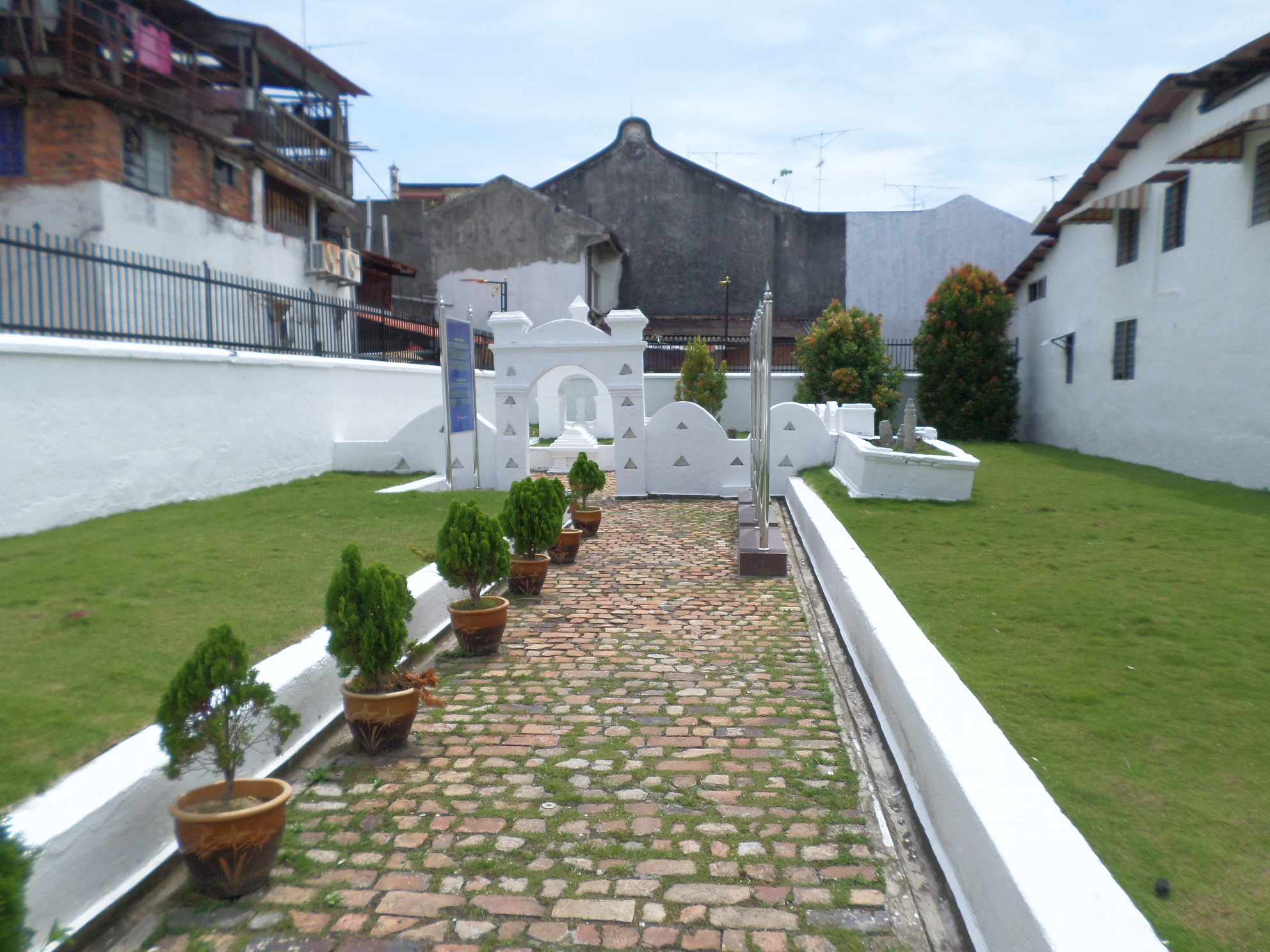 Hang Jebat Mausoleum, Malacca Town, Malacca, Malaysia